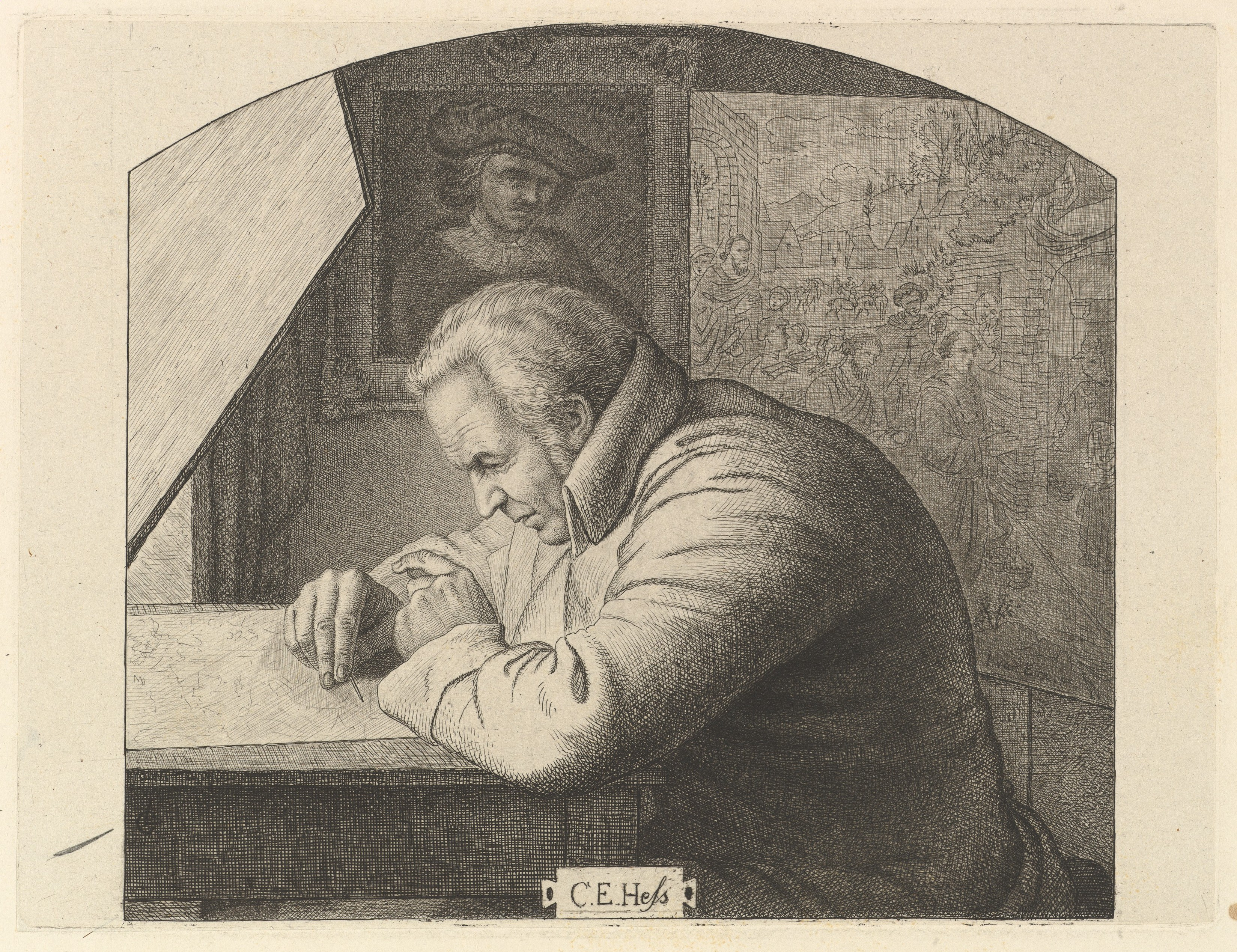 Print; Prints